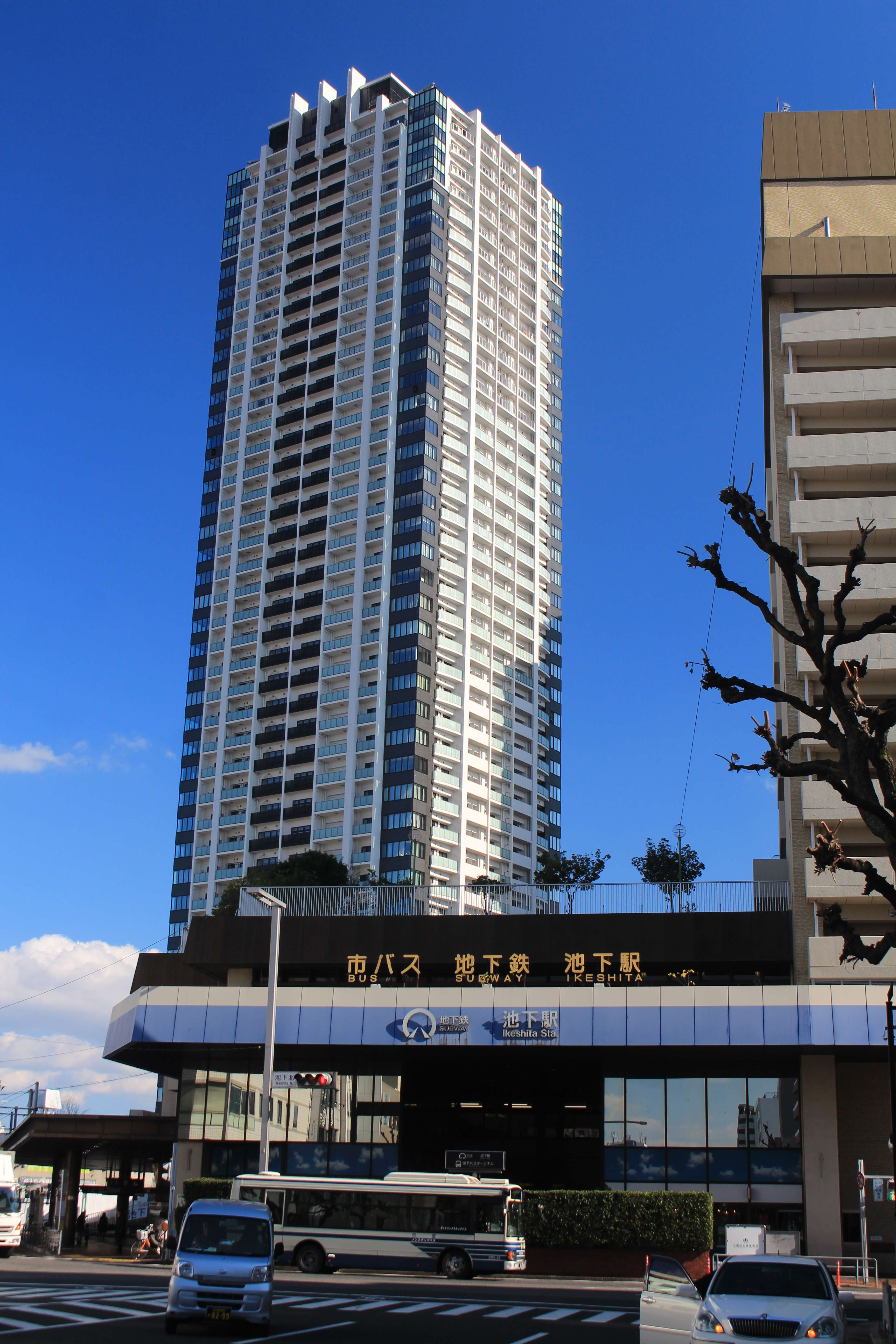 Ikeshita Station and Grande maison Ikeshita the tower, in Ikeshita, Chikusa-ku, Nagoya, Aichi prefecture, Japan.